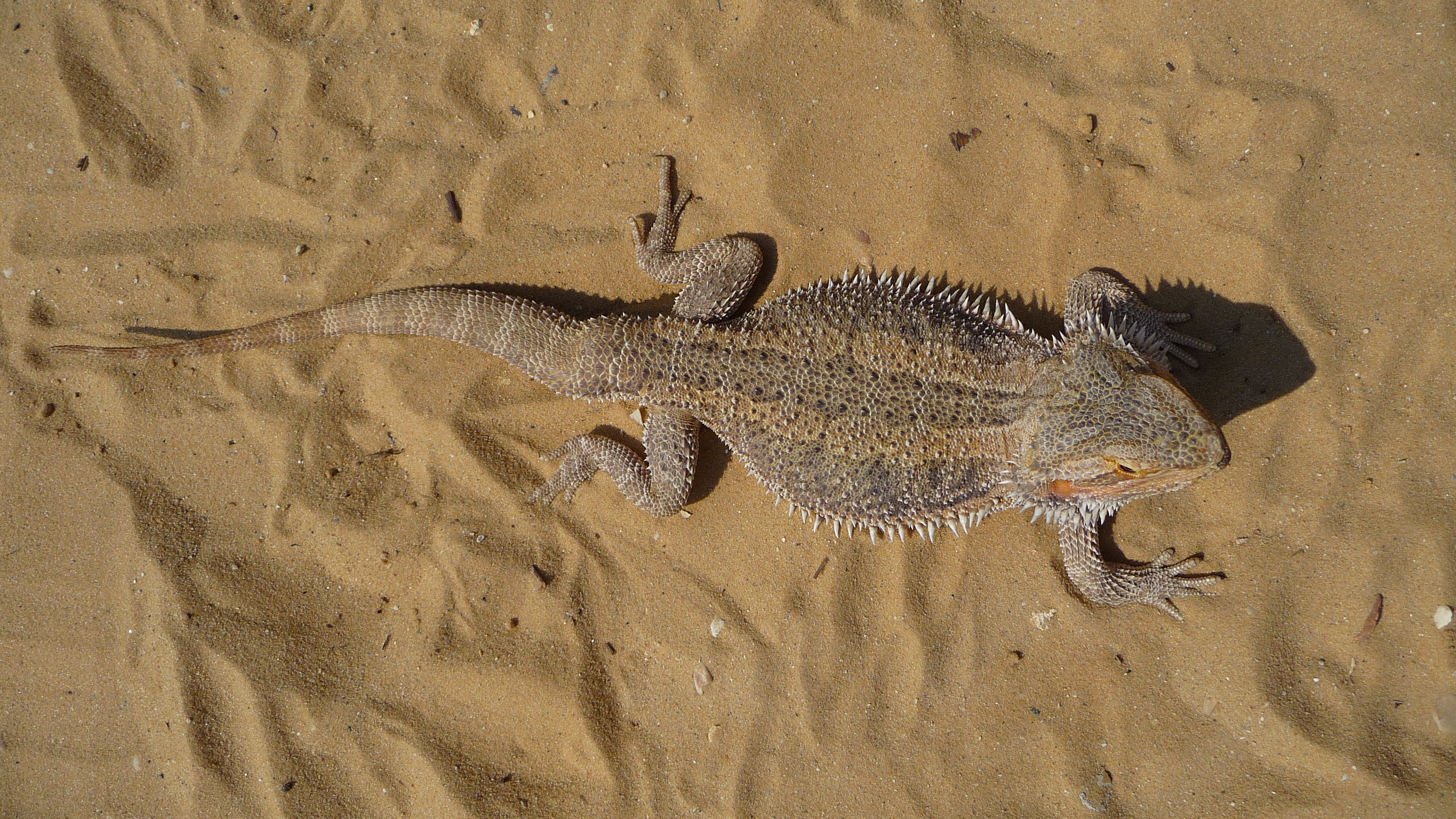 Central Bearded Dragon Pogona vitticeps (Ahl, 1926)